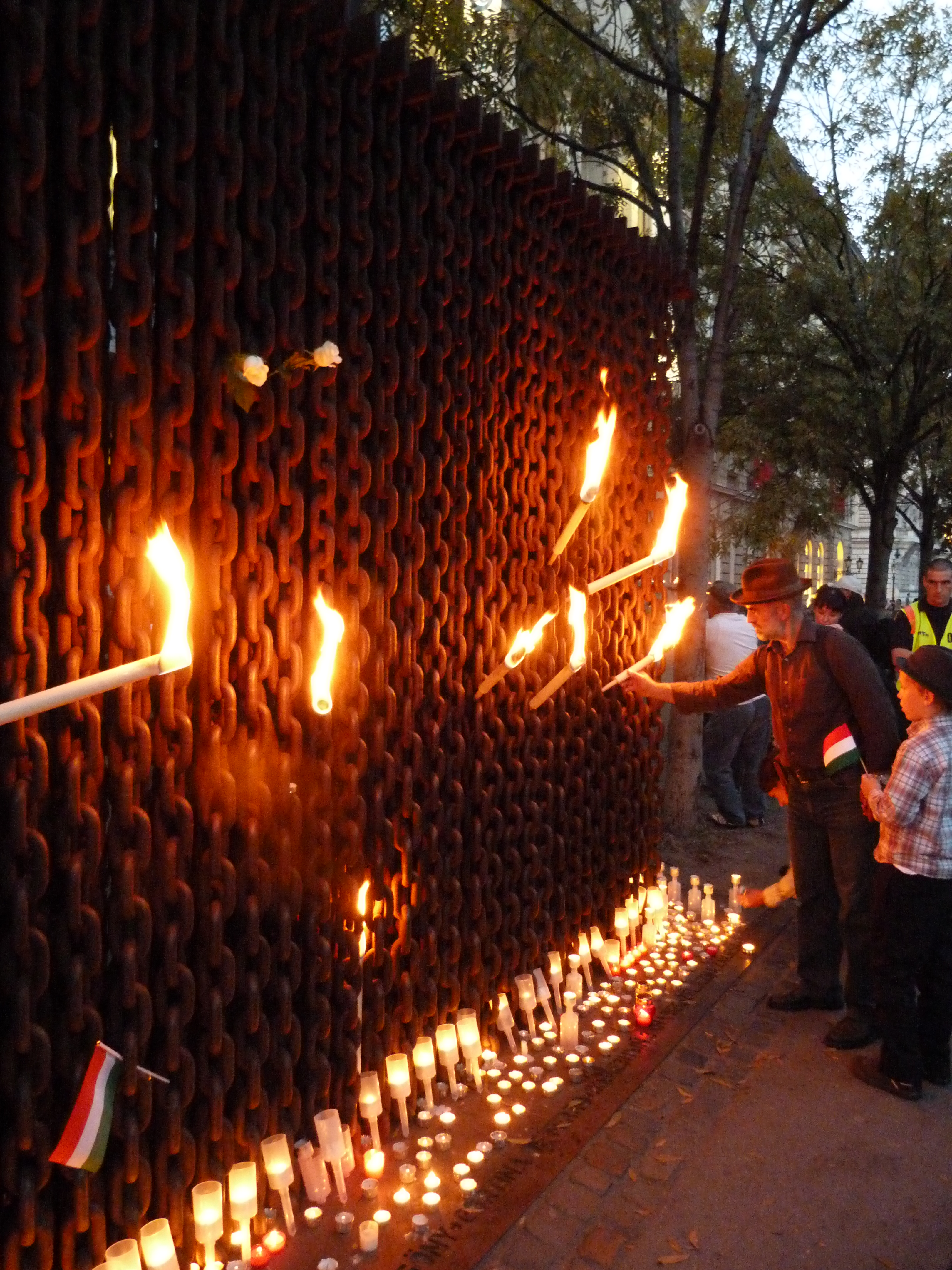 Live on the 23rd of October, 2013. Budapest downtown. The 3rd Peace March for Hungary. Budapest Andrássy út – körút – Oktogon – Andrássy út (Terror Háza) – Körönd – Hősök tere. Pro-goverment demonstration. Sourches: Civil Összefogás Fórum Sajtótájékoztató a 2013. október 23-ai Békemenetről Több százezren a Hősök terén ©© Derzsi Elekes Andor, Budapest, 2013, You are authorised to use these photos and vids under Creative Commons – even for commercial, for profit purposes. Photos must be attributed to Derzsi Elekes Andor. All of the photos and vids in the Metapolisz DVD line are under Creative Commons and can be used even for commercial – for profit – purposes. Recommended Citation Derzsi Elekes Andor: Metapolisz DVD line